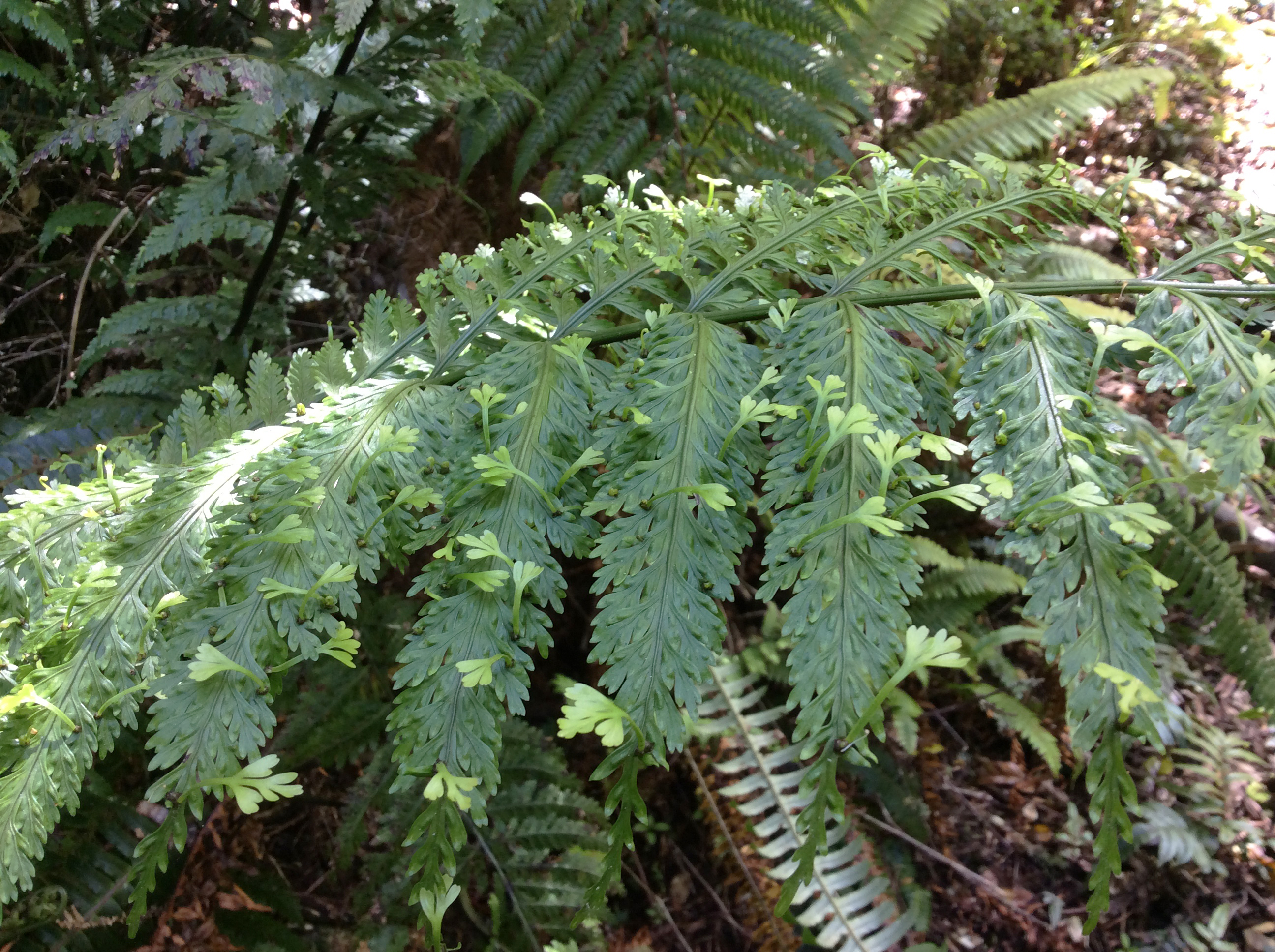 Asplenium bulbiferum (Hen and Chicken Fern) on Ulva Island, South Island, New Zealand